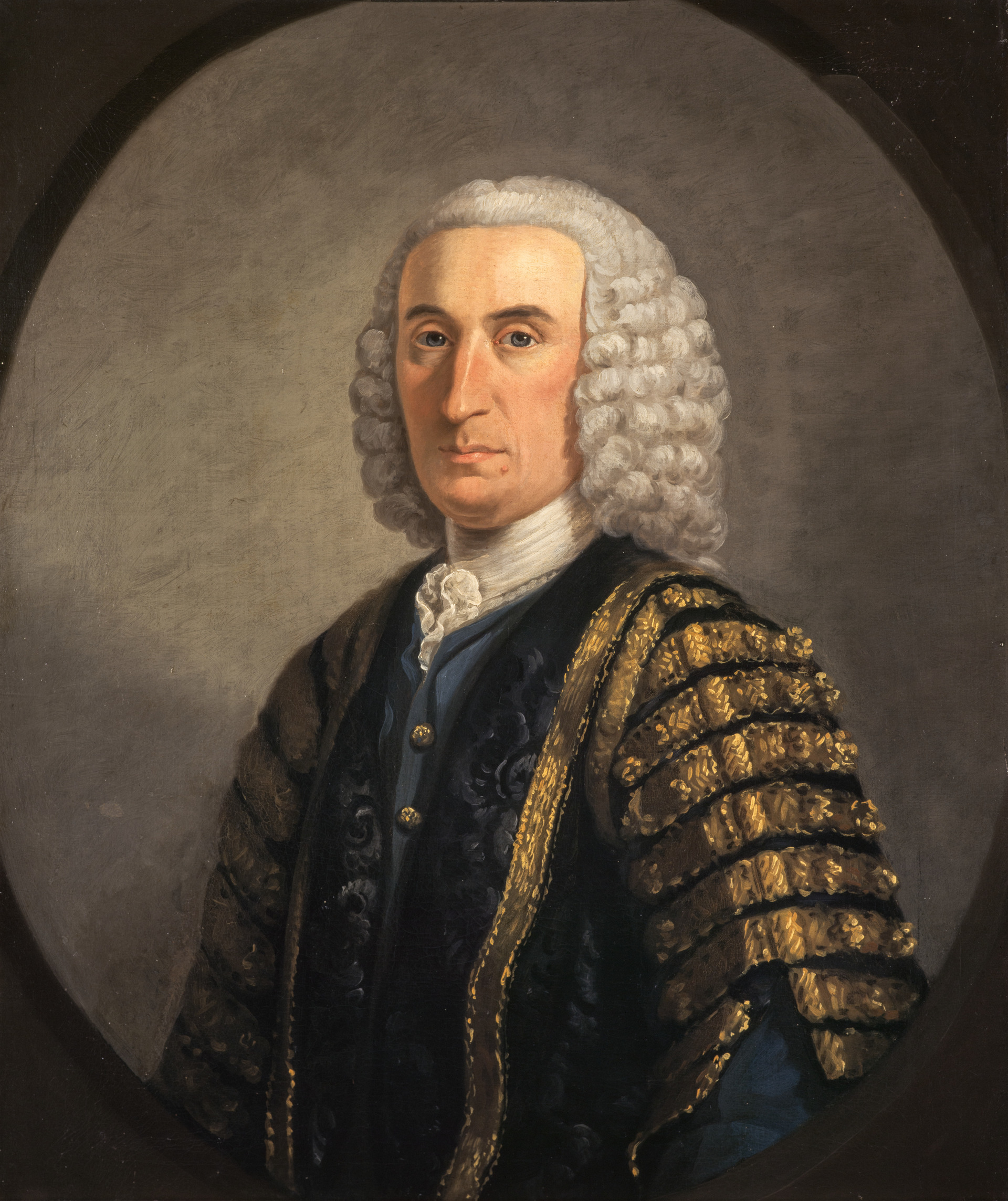 Portrait of Alexander Hume-Campbell, 2nd Earl of Marchmont (1675-1740)